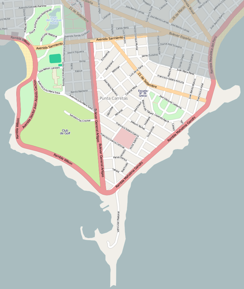 Street map of Punta Carrets, Montevideo, exported from OpenStreetMap. I added shading to delimit the barrio. This map may be incomplete, and may contain errors. Don't rely solely on it for navigation.